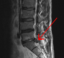 Photo taken in the MRI lab mri of my back.